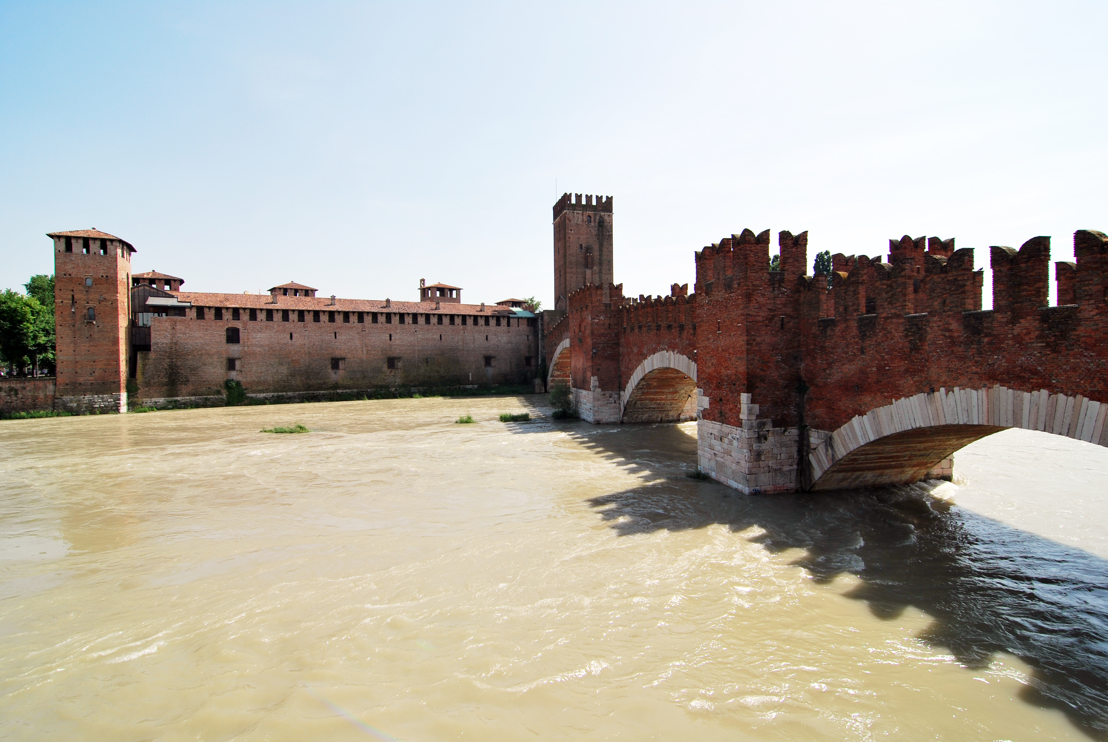 castelvecchio castle and scarligeri bridge, verona italy may 2009